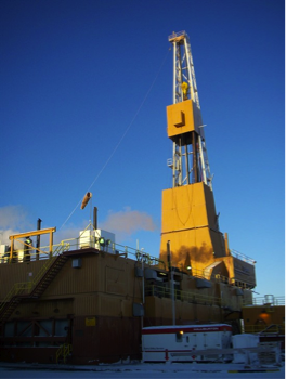 Image of the drilling rig of the Mount Elbert test well, Northern Alaska